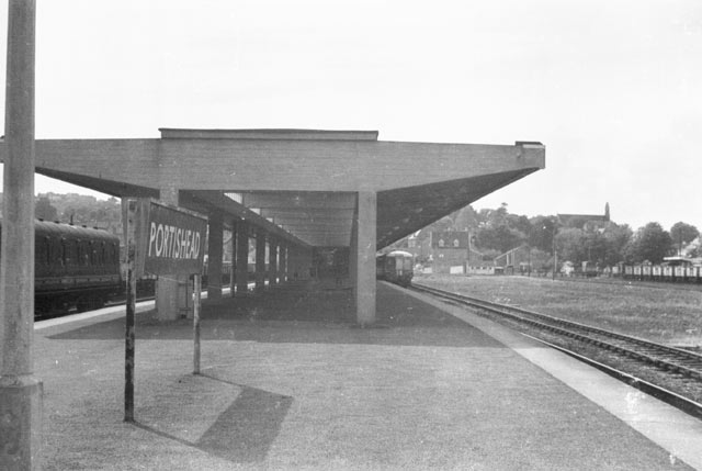 Portishead Station was constructed in the 1950s, replacing one a little further north.